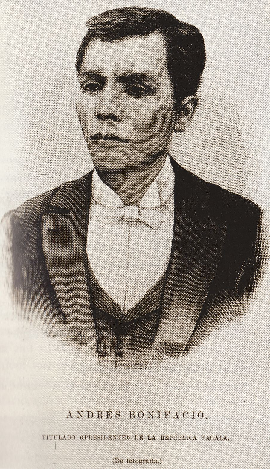 Engraving of Filipino insurgent leader Andrés Bonifacio from February 8, 1897 issue of La Ilustración Española y Americana, a Spanish-American weekly publication. Captioned (in Spanish): "Andrés Bonifacio, titled "President" of the Tagalog Republic". From a photograph.